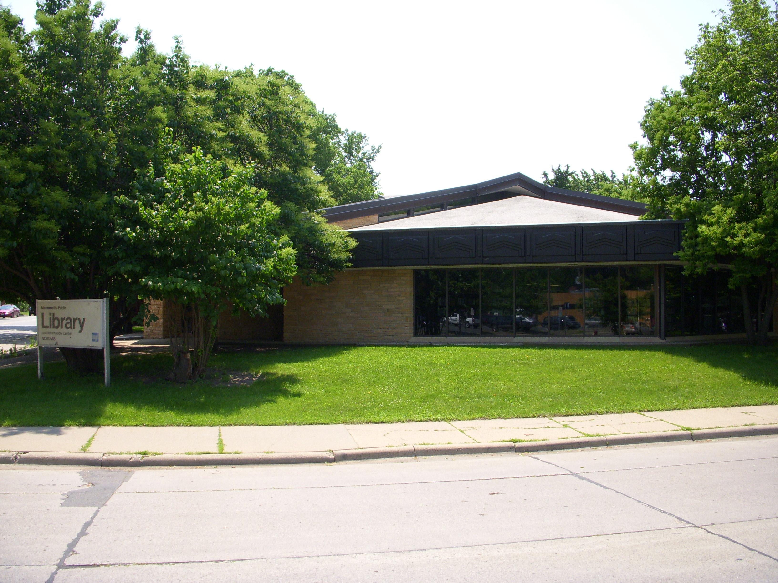 A photo of Minneapolis's Nokomis Community Library.